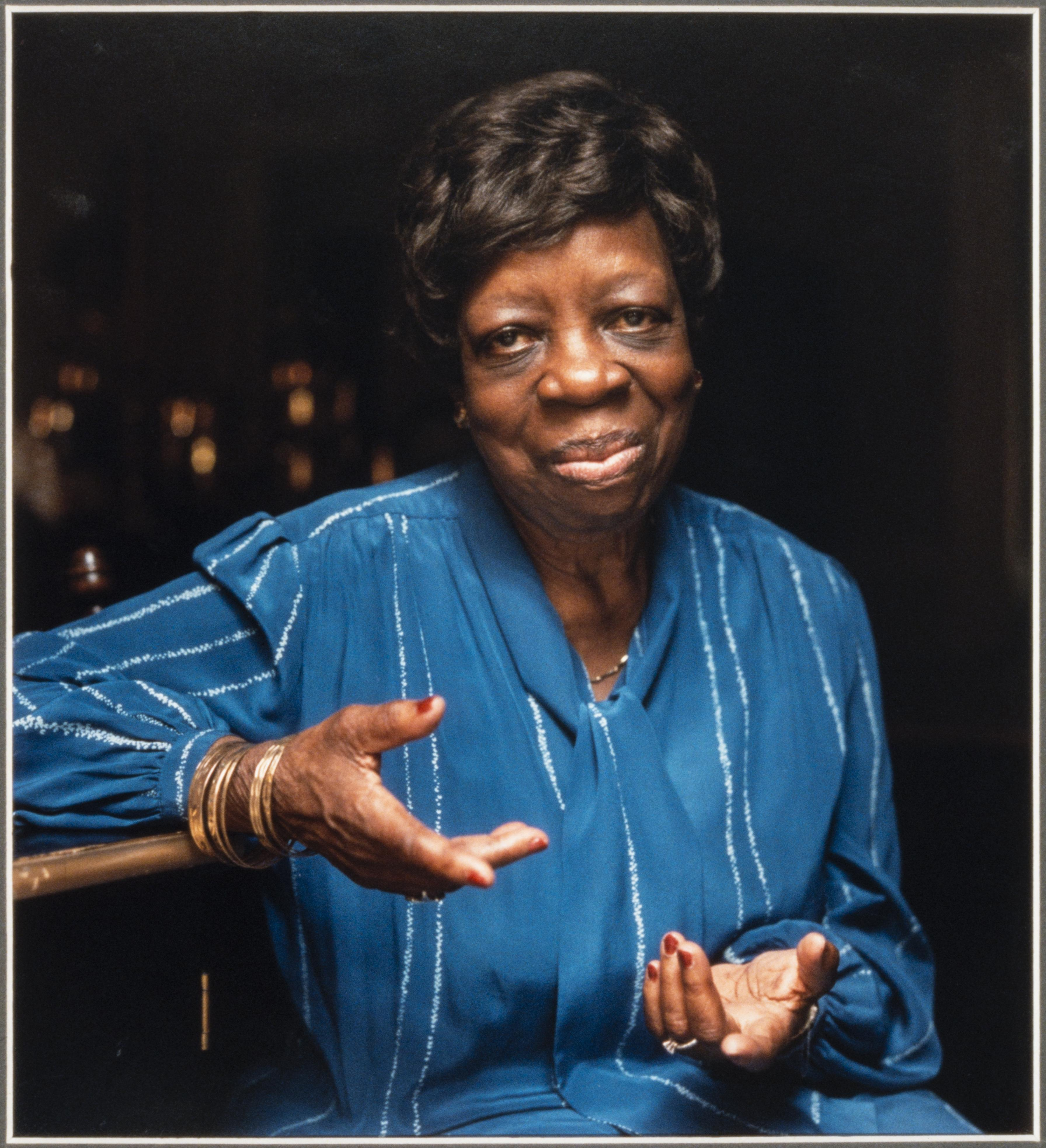 Biography: Ozeline Pearson Wise was the first Black woman to be employed in the banking department of the Commonwealth of Massachusetts. She grew up in Michigan and Massachusetts, graduating from high school in Cambridge, Mass. With the death of her father before she began college, she sought employment in the postal service. Despite a high score on the civil service examination, she was not hired and began to work at various clerical jobs. During World War II, she worked for the U.S. Navy in both ship fittings and personnel. She was then employed for 20 years by the Commonwealth of Massachusetts. In 1963, after the death of her husband, John Wise, she went to live in Cambridge with her sister, Satyra Bennett. Very active in St. Paul A.M.E. Church, which her father, the Rev. William B. Pearson, had pastored, she was trustee, Sunday School teacher, and chair of the building fund. Cofounder with her sister, and a charter member of the Citizens' Charitable Health Association, she also worked with Mrs. Bennett in other community organizations. Her contributions to her church were recognized in 1969 and again in 1978. Description: The Black Women Oral History Project interviewed 72 African American women between 1976 and 1981. With support from the Schlesinger Library, the project recorded a cross section of women who had made significant contributions to American society during the first half of the 20th century. Photograph taken by Judith Sedwick Repository: Schlesinger Library on the History of Women in America. Collection: Black Women Oral History Project Research Guide: Questions?